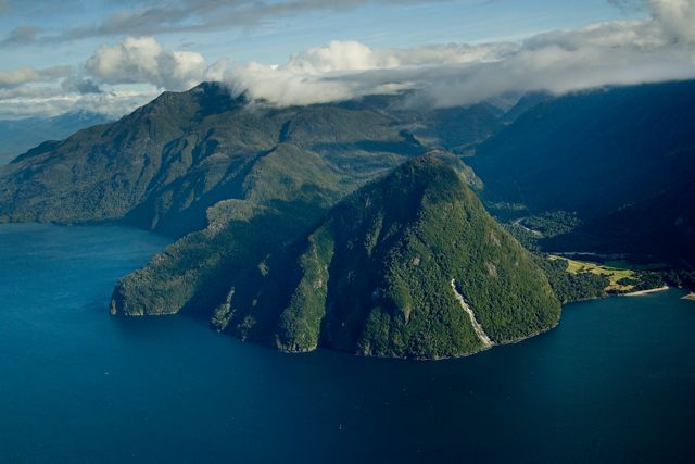 Pumalin park